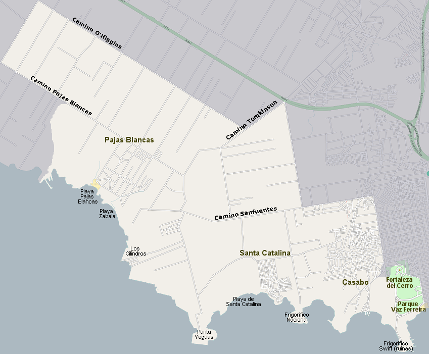 Street map of Casabó - Santa Catalina - Pajas Blancas, Montevideo, exported from OpenStreetMap. I added shading to delimit the barrios. This map may be incomplete, and may contain errors. Don't rely solely on it for navigation.